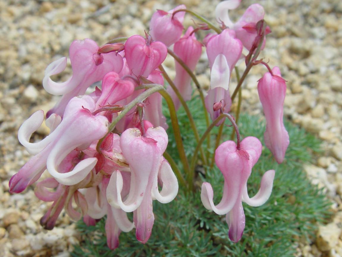 Dicentra peregrina in Mount Tsubakuro hut, Nagano prefecture, Japan.